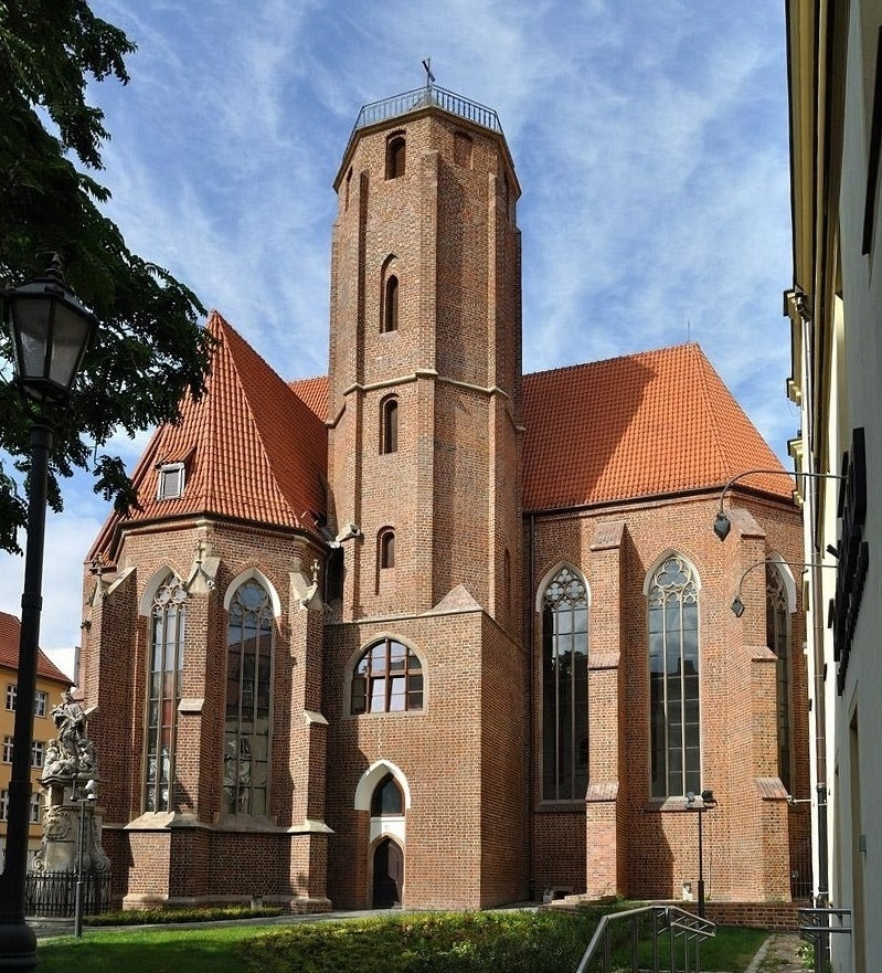 Saint Matthew Church, Wroclaw